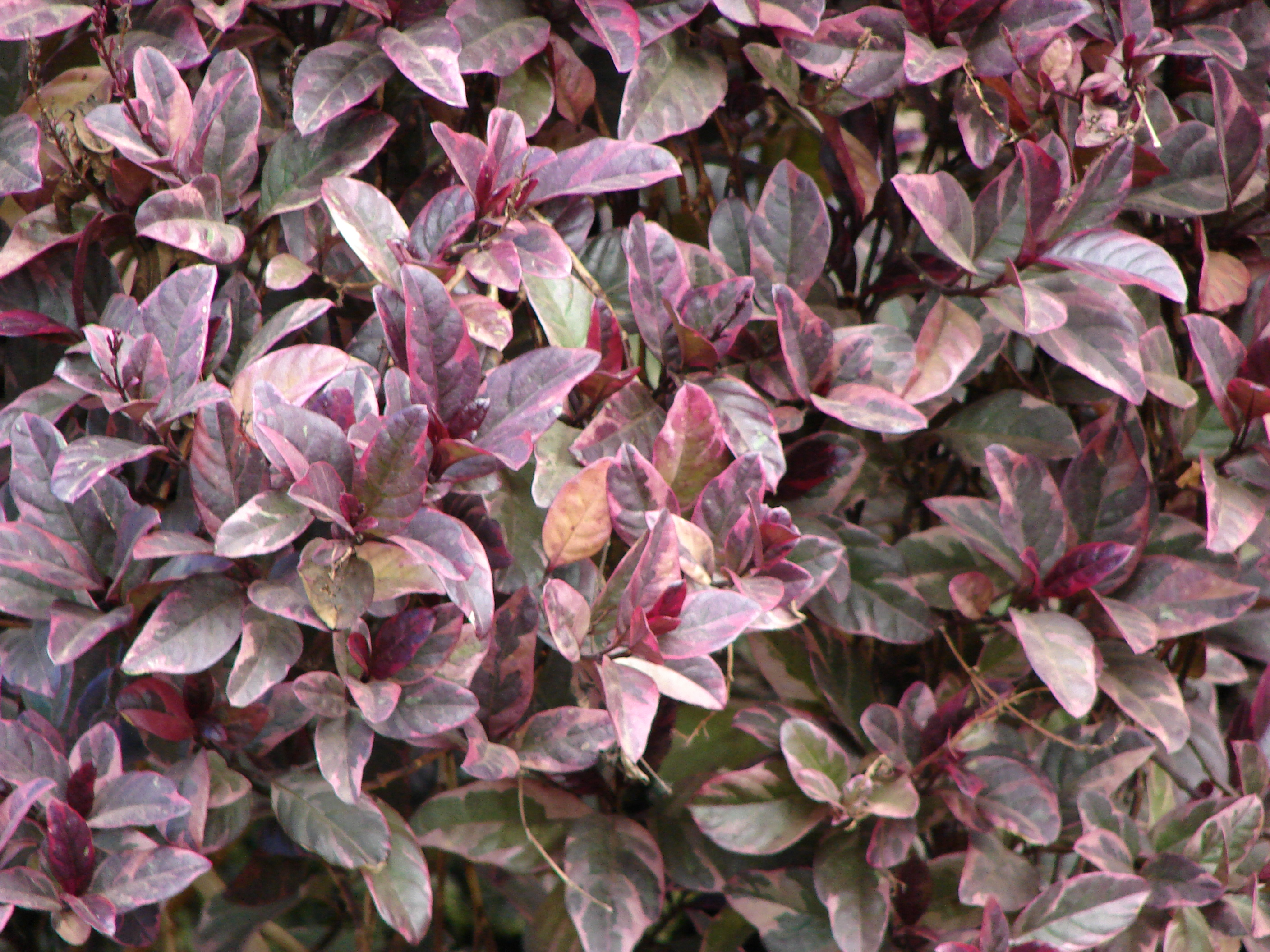 Pseuderanthemum carruthersii var. atropurpureum (leaves). Location: Maui, Kihei